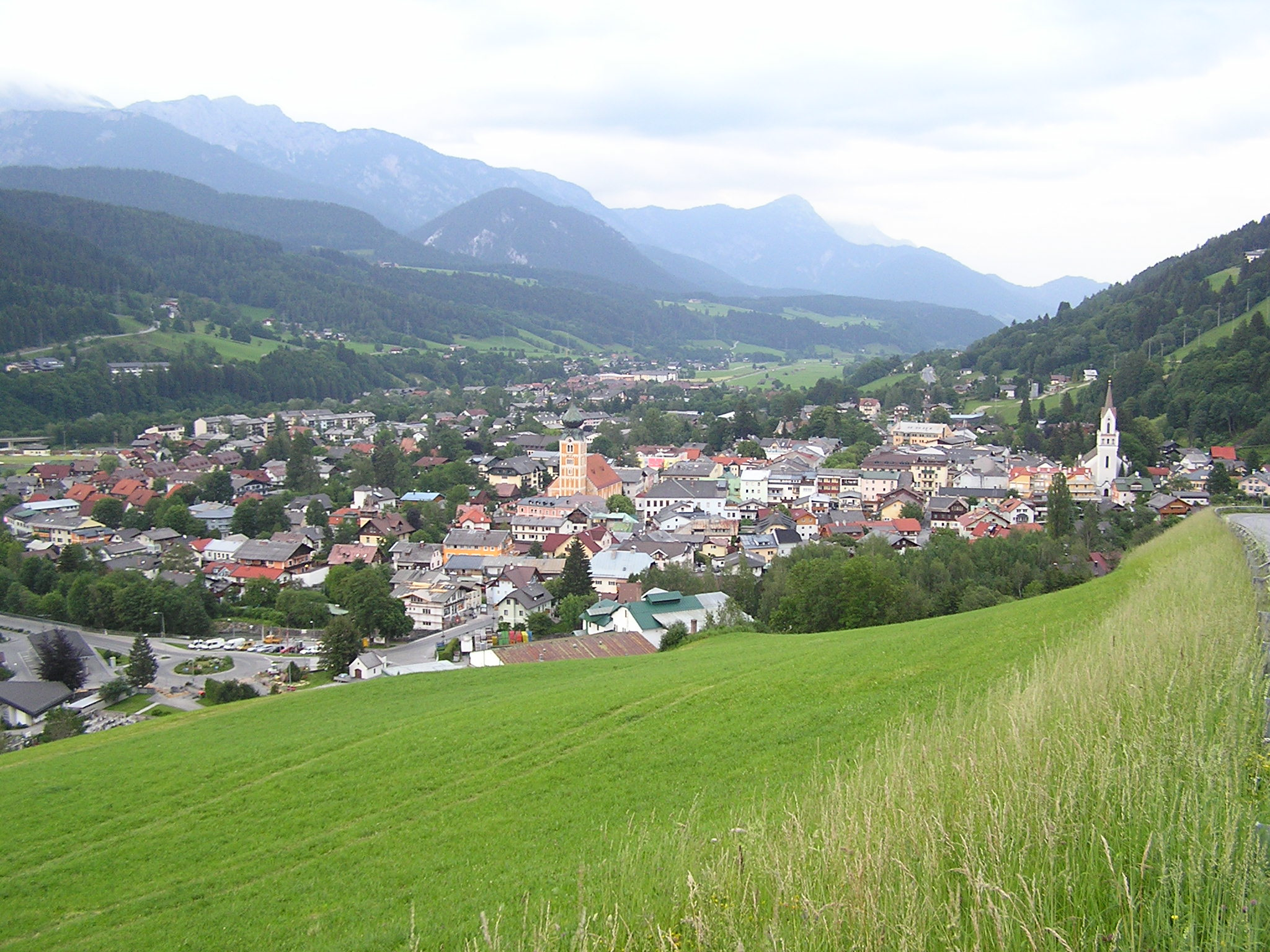 Schladming